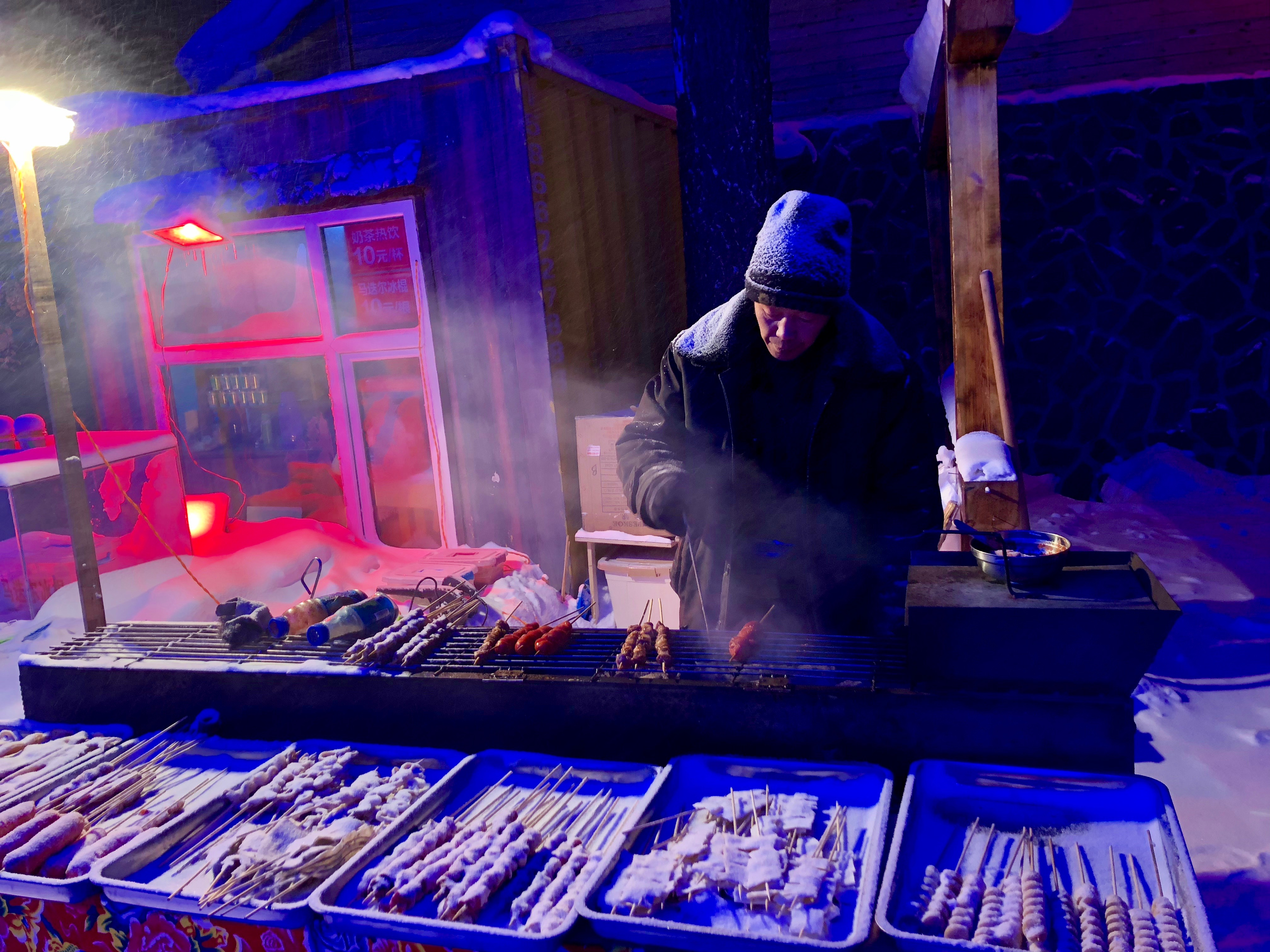 Defrosting/cooking food at -35 degrees